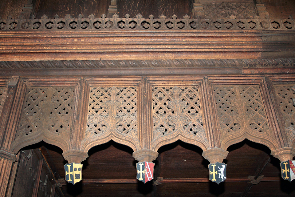 The screen